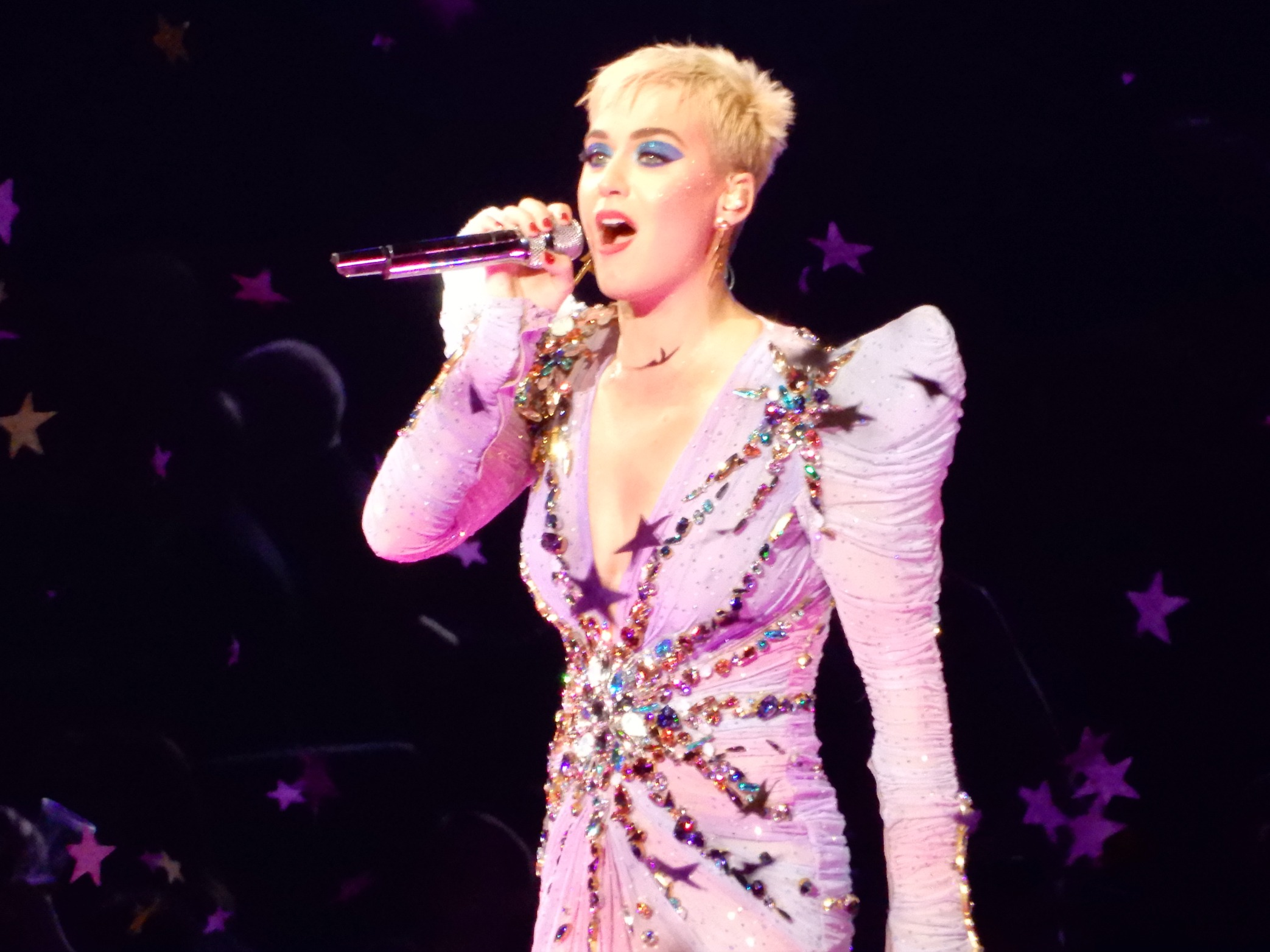 Firework Encore